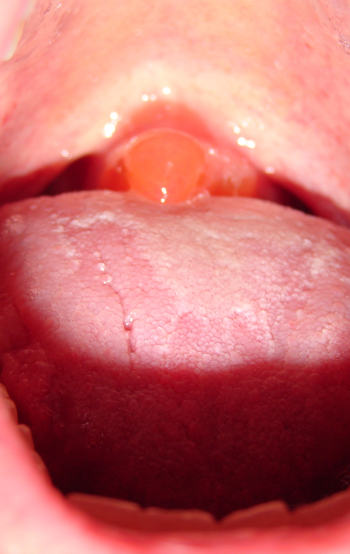 Uvulitis